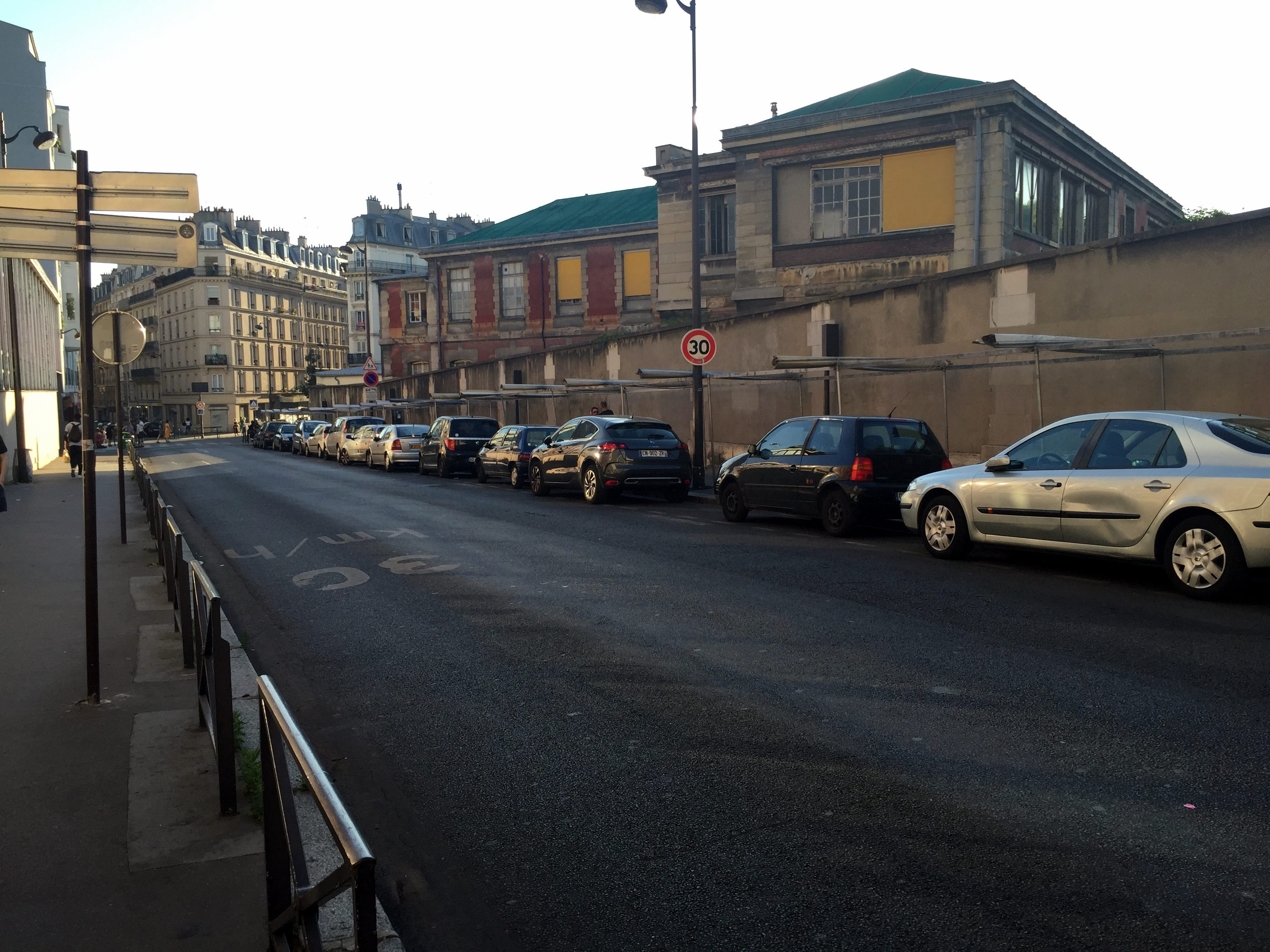 This photograph was taken with an iPhone 6